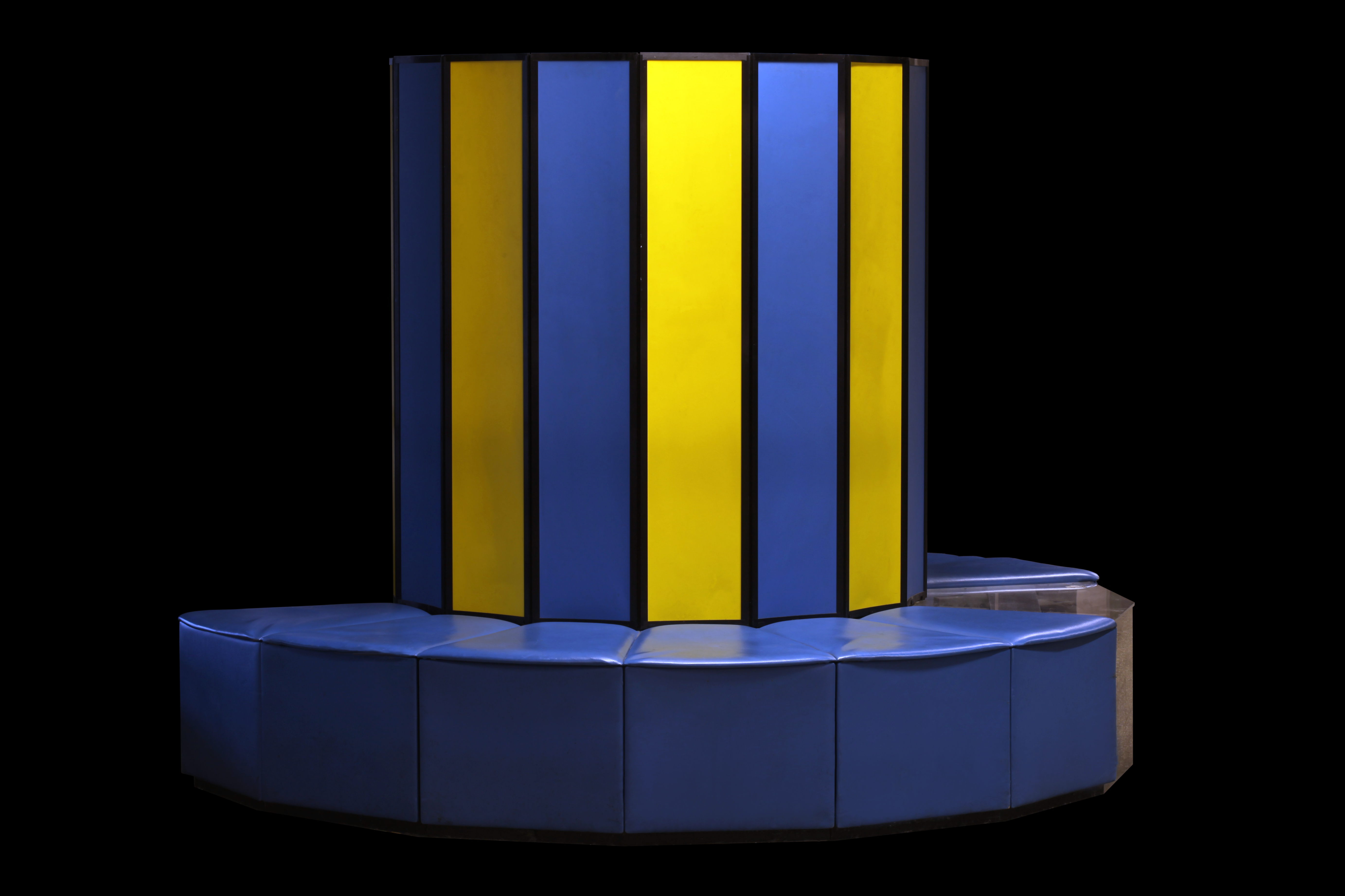 Cray X-MP48 on display at the EPFL